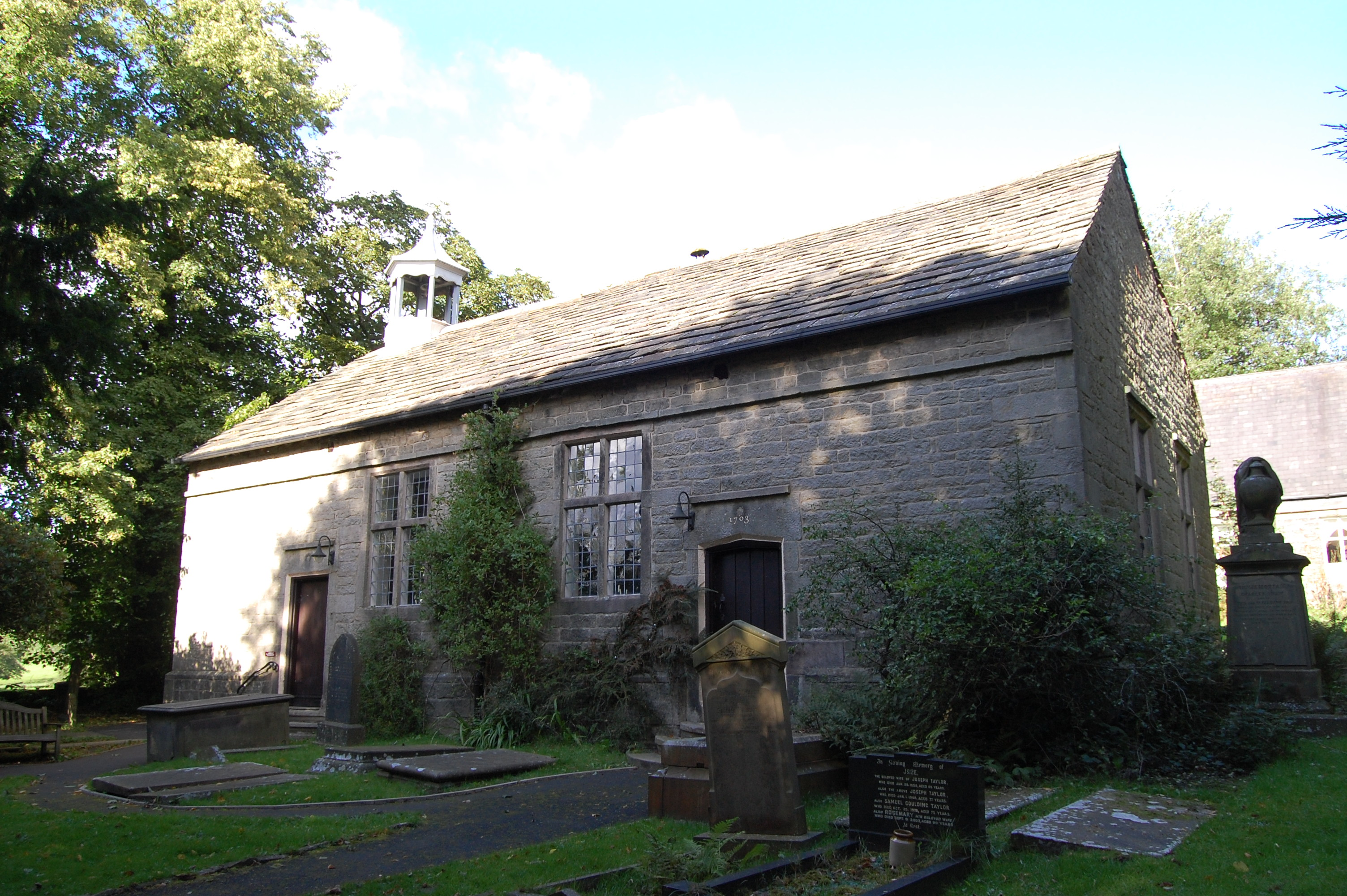 The Unitarian Chapel in Rivington, Lancashire